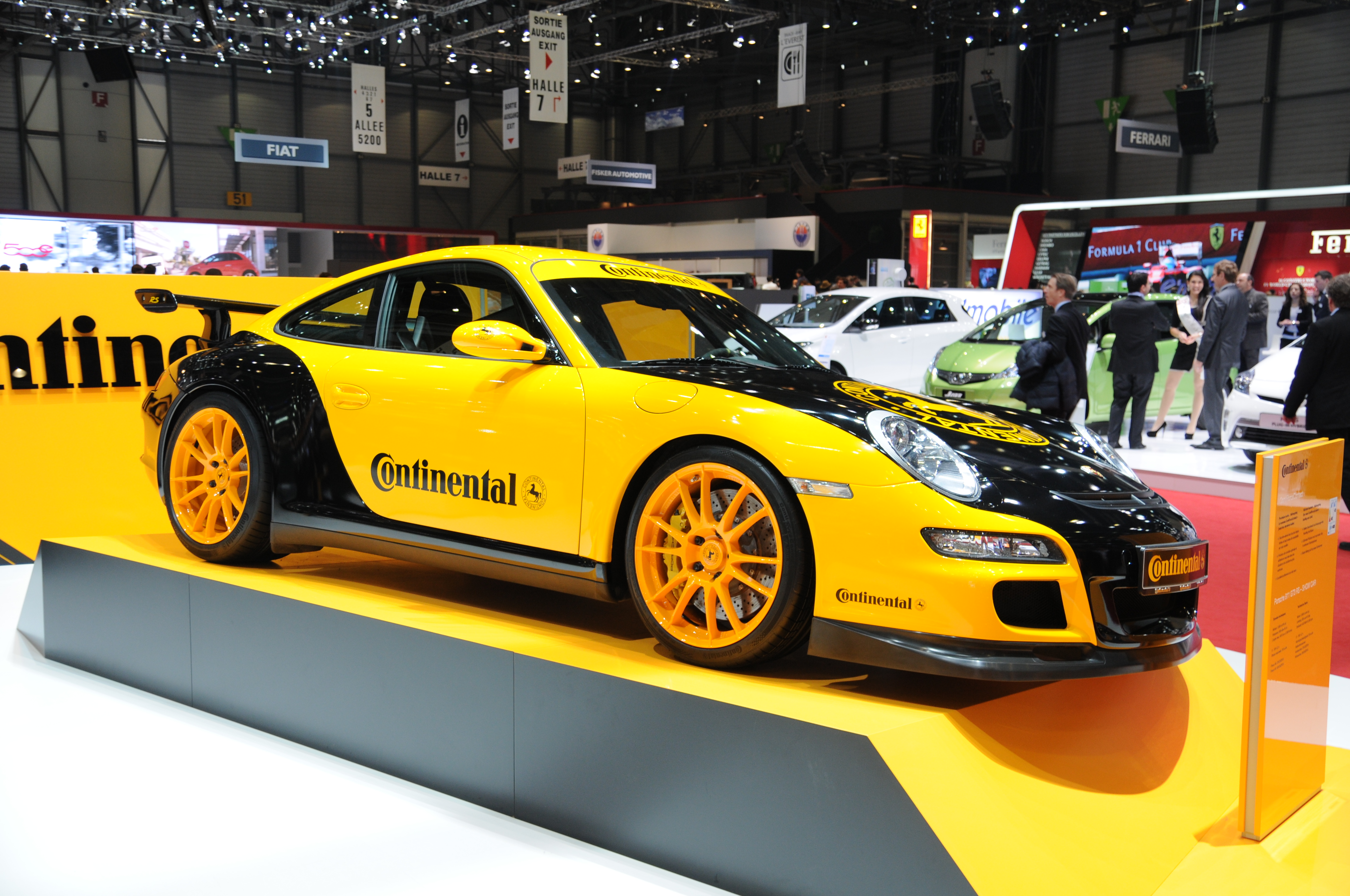 Geneva Motor Show 2013 (photos taken on the first press day)